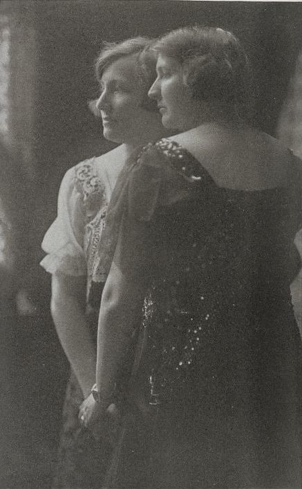 [Emme and Mayme Gerhard] Digital ID: (digital file from original) ppmsca 31604 Reproduction Number: LC-DIG-ppmsca-31604 (digital file from original item) Repository: Library of Congress Prints and Photographs Division Washington, D.C. 20540 USA